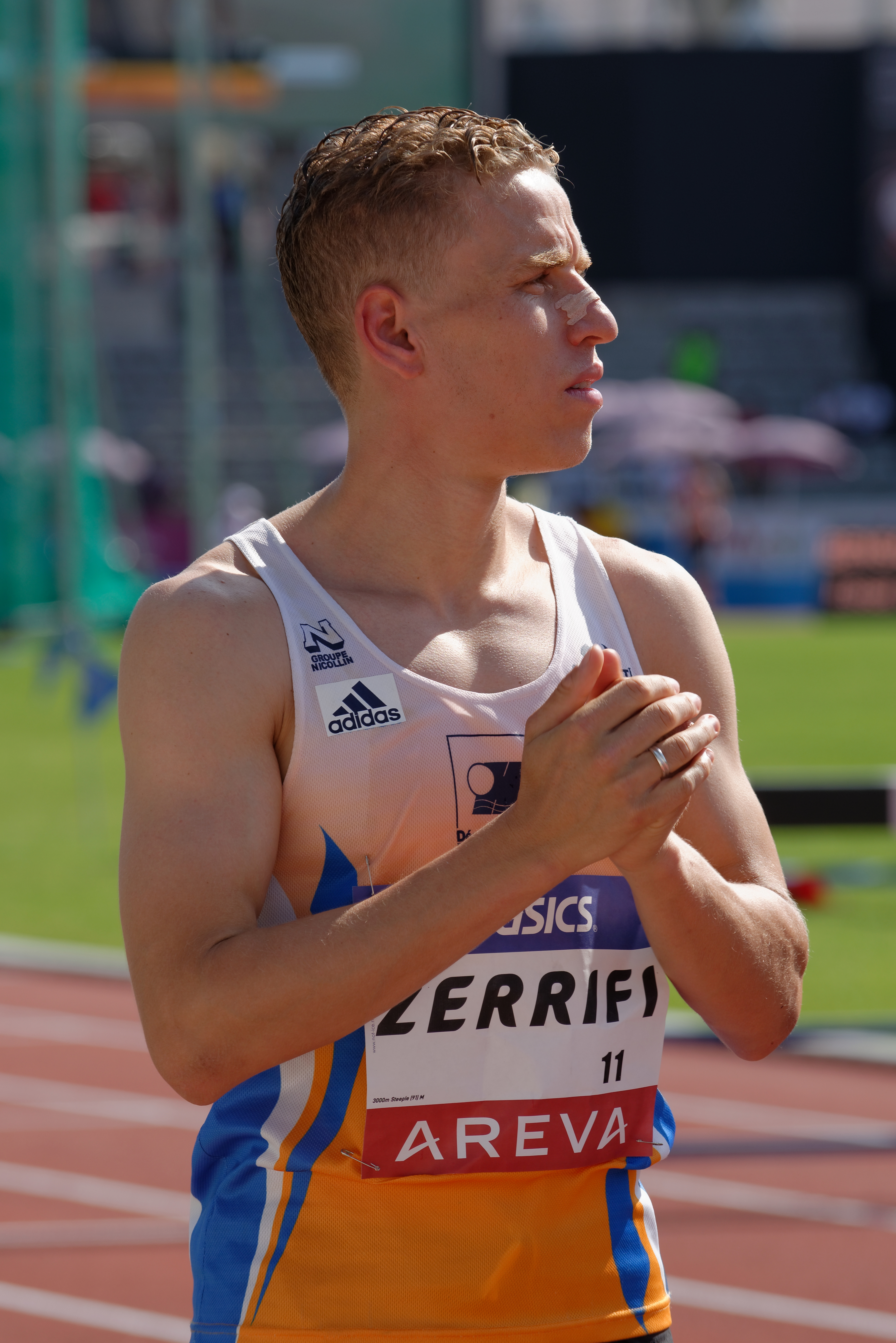 Abdelhamid Zerrifi before the men's 3000 m steeplechase during the French Athletics Championships 2013 at Stade Charléty in Paris, 13 July 2013.